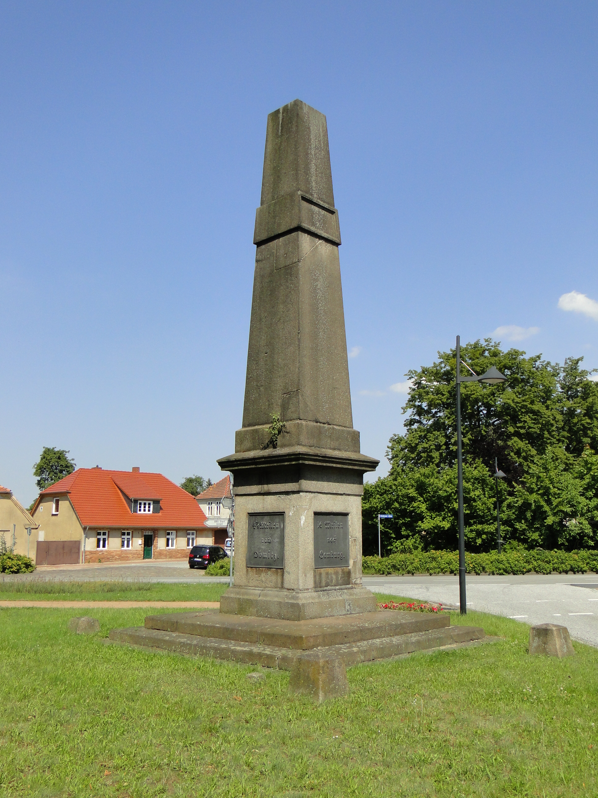 Distance column at street Grabower Allee (B 5) in Ludwigslust, district Ludwigslust-Parchim, Mecklenburg-Vorpommern, Germany